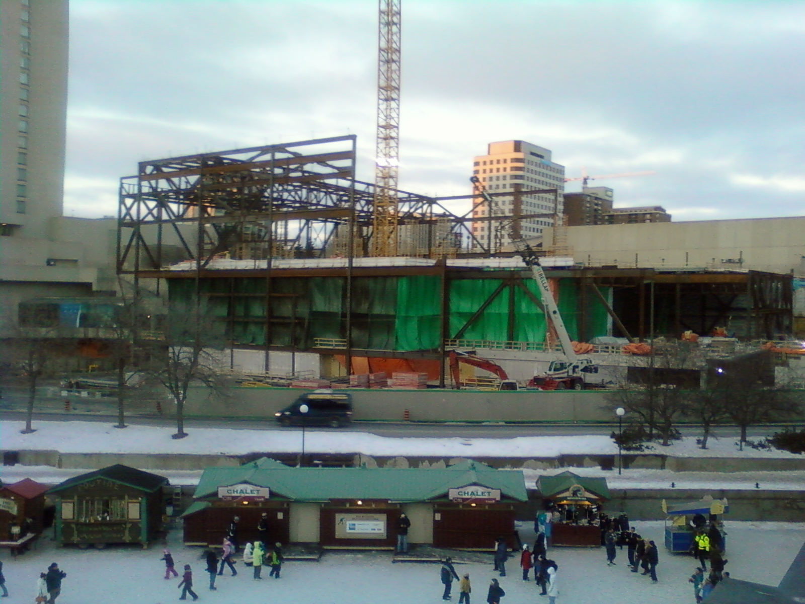 View of Convention Centre under construction from south-west